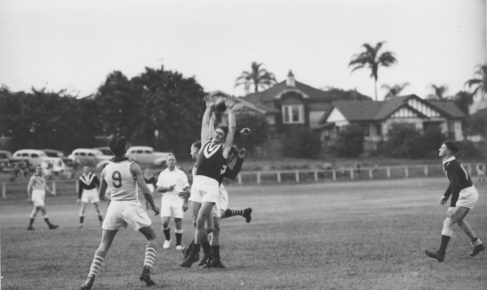 Creator: Unidentified. Location: Bowen Hills, Brisbane, Queensland. Description: Australian Rules football game at Perry Park, Bowen Hills. The background features a number of motor vehicles from the 1930's-40's and a large residence. View this image at the State Library of Queensland: Information about State Library of Queensland’s collection: You are free to use this image without permission. Please attribute State Library of Queensland.